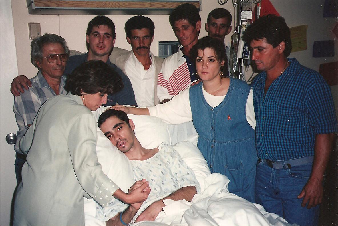 Last photo taken of Pedro Zamora less than 7 days before his death. I believe it is the only picture taken of Pedro with all of his siblings. I happen to have my camera that day.